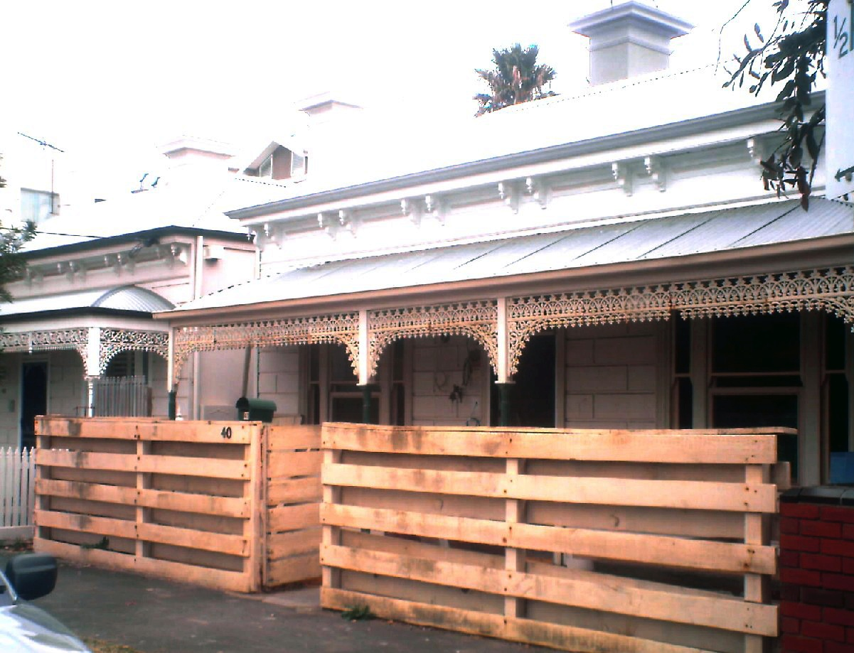 Photo of the house that formerly belonged to former Australian cricket captain Harry Trott